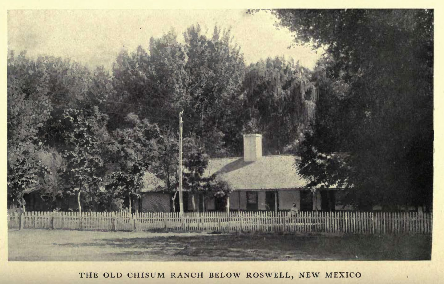 Image of Chisum Ranch, Roswell NM from The Story of the Outlaw by Emerson Hough, 1907